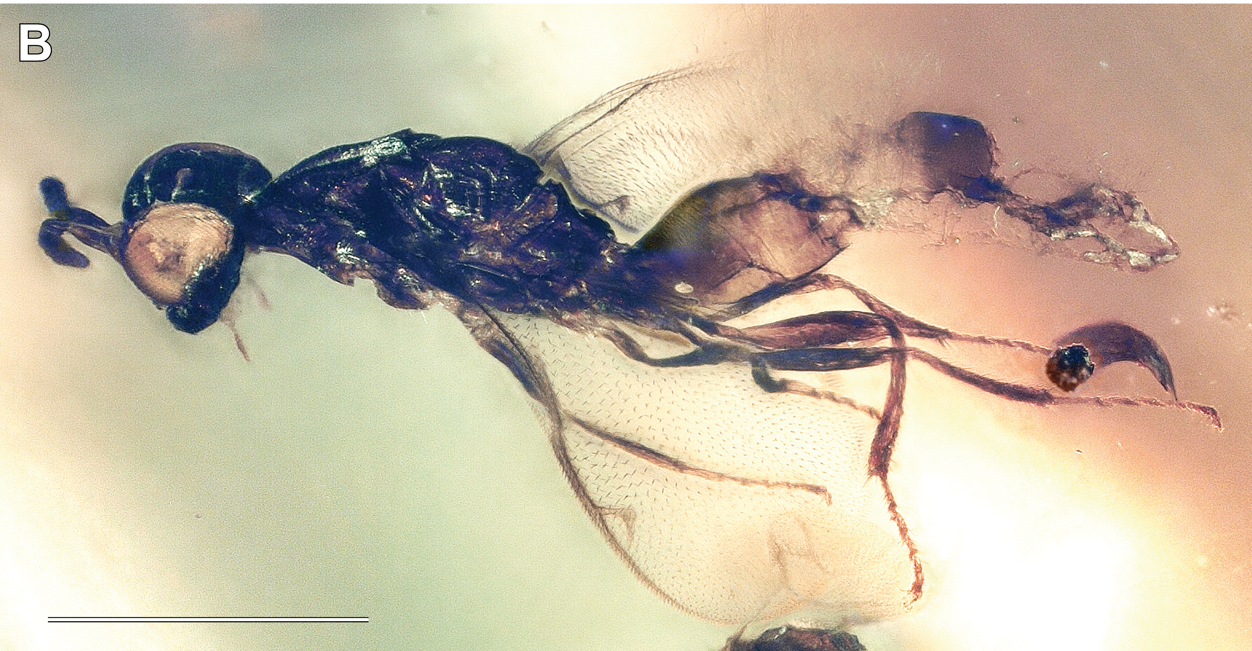 Holotype (above) and (paratype) below specimens of Diversinitus attenboroughi